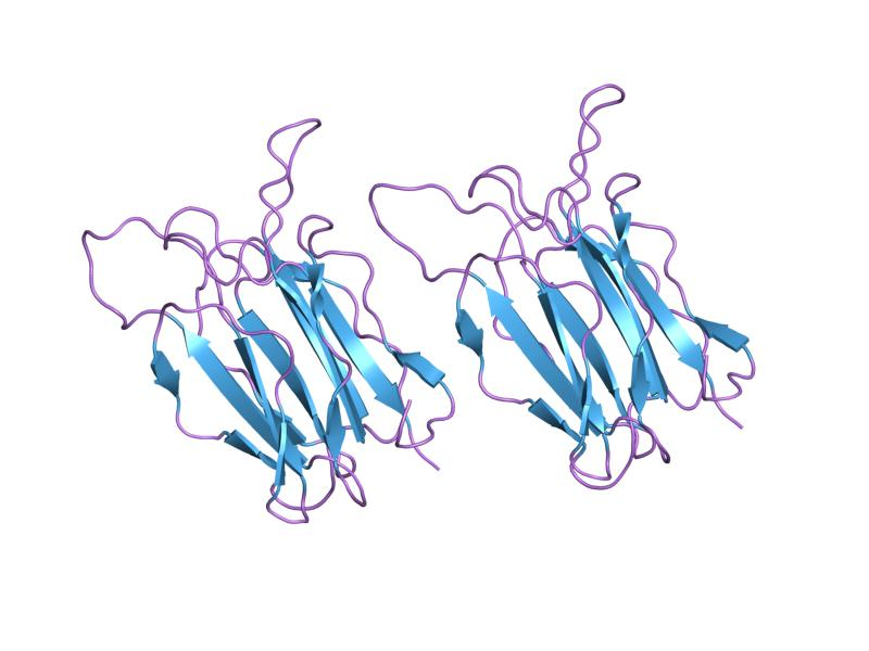 Cartoon representation of the molecular structure of protein registered with 1vmo code.